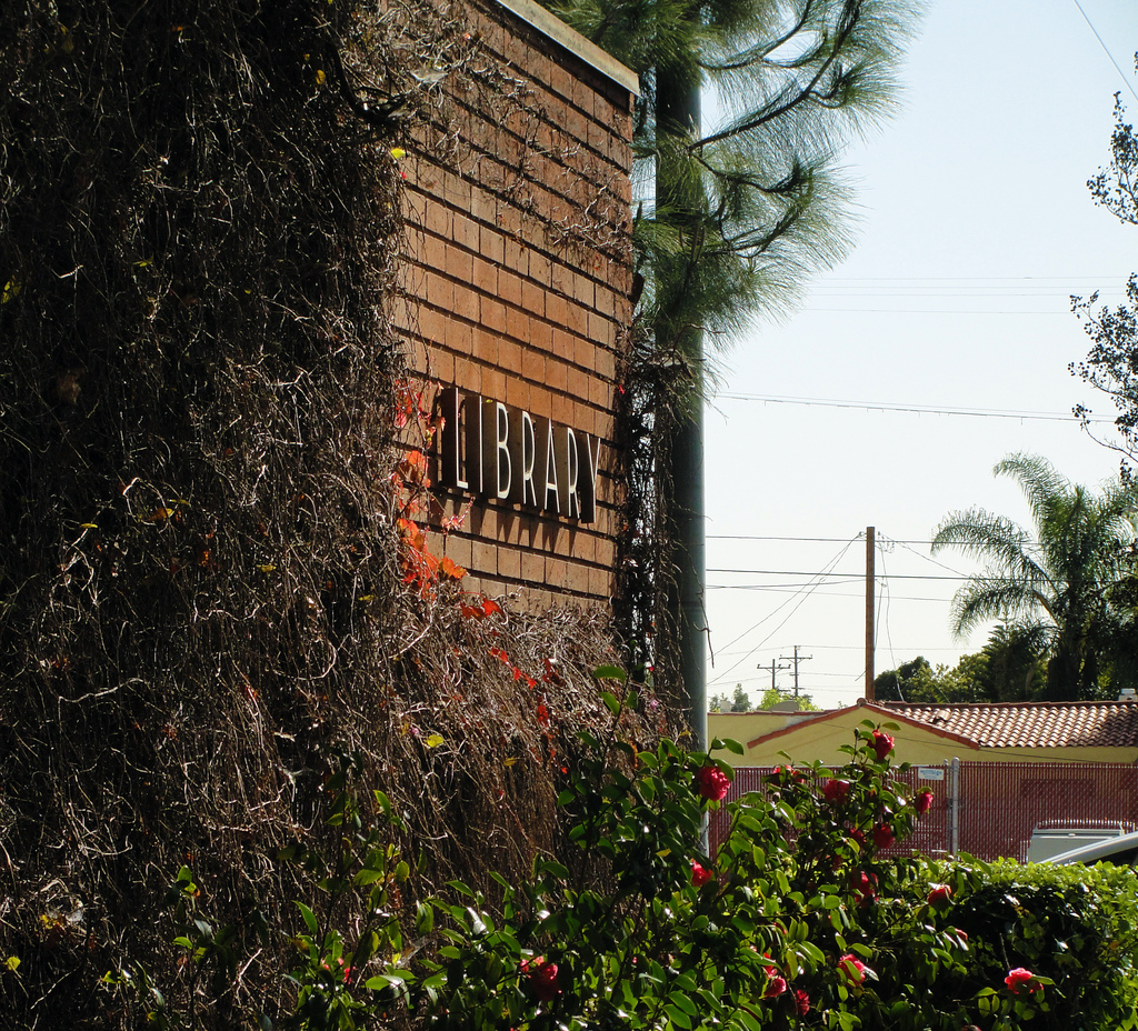 Sign of the Bell Library in Bell, CA